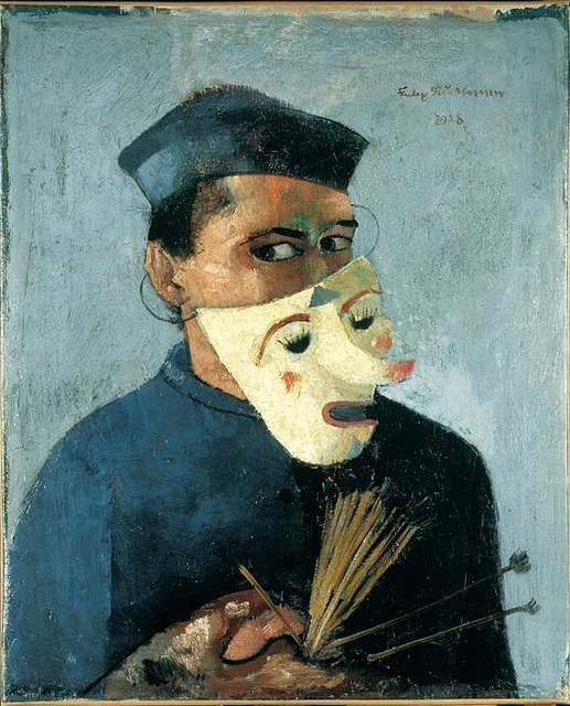 Self-portrait with Mask, 1928 painting by Felix Nussbaum